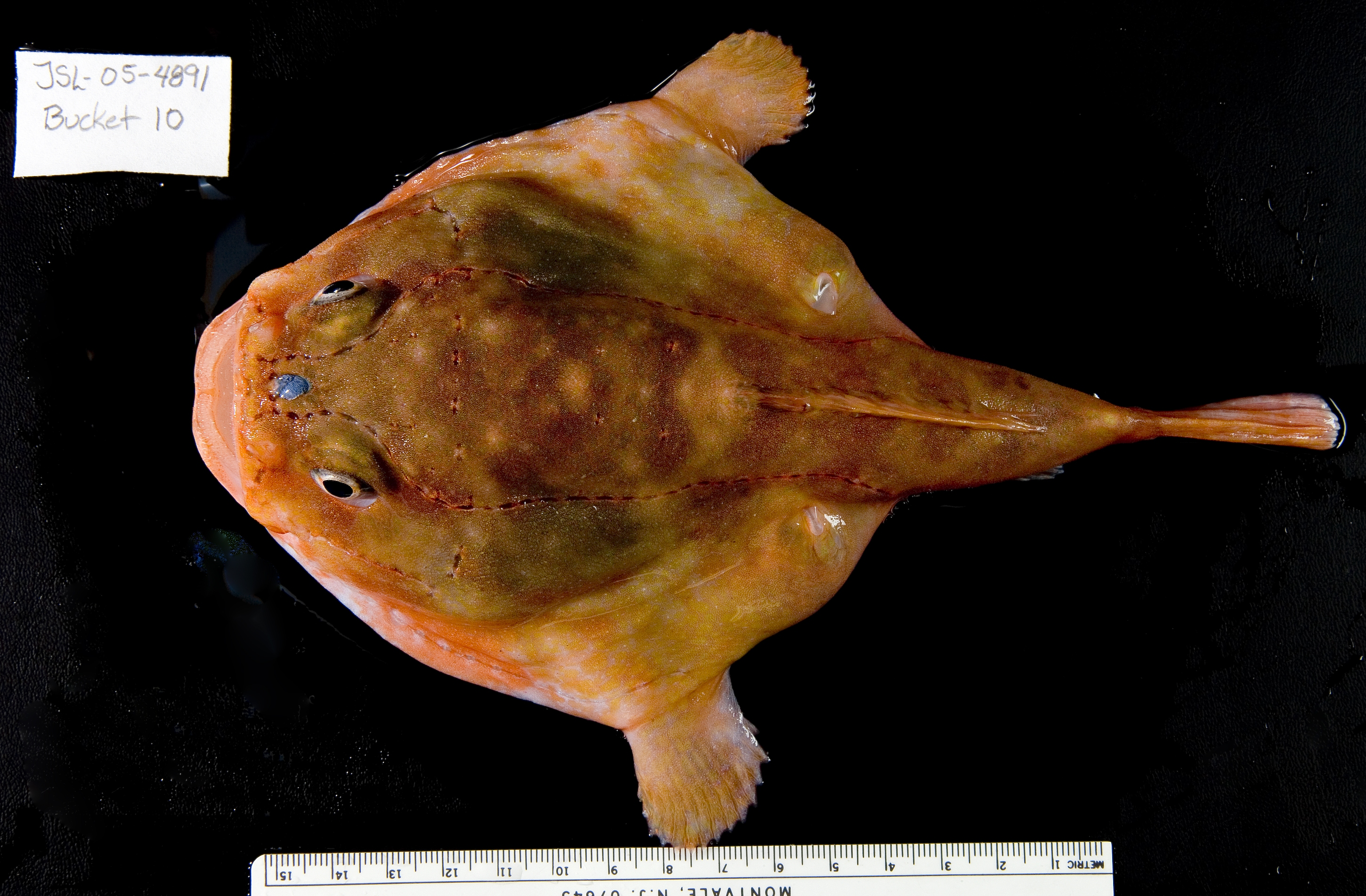 Chaunax stigmaeus Offshore North Carolina